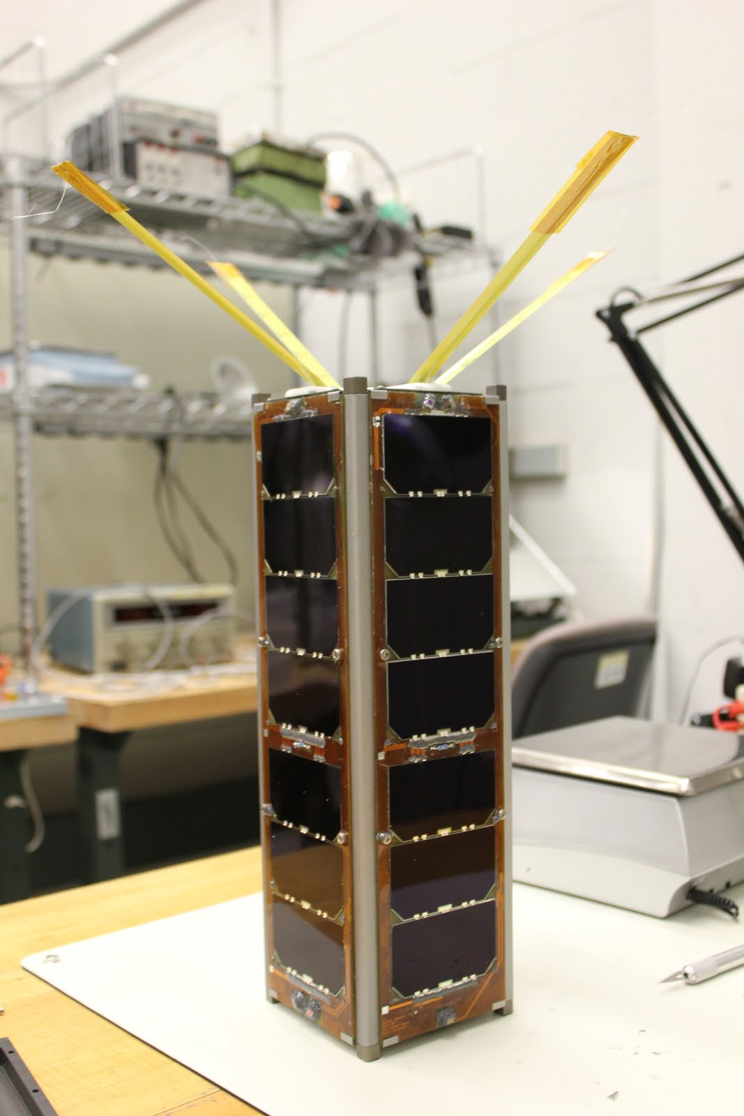 The fully integrated RAX-2 CubeSat